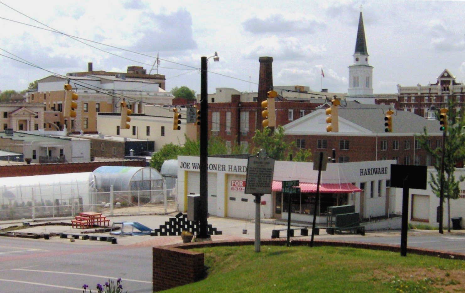 Greeneville, Tennessee, in the southeastern United States. This view of the town is from College Street, near the Franklin Capitol replica cabin.